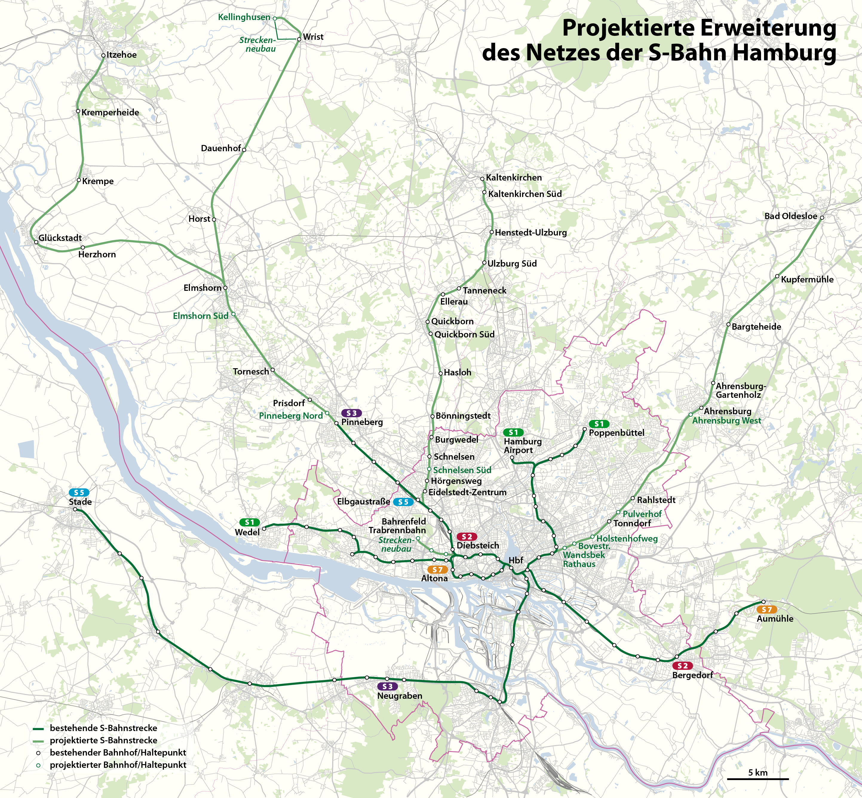 Plans and projects for the expansion of the Hamburg S-Bahn This map may be incomplete, and may contain errors. Don't rely solely on it for navigation.